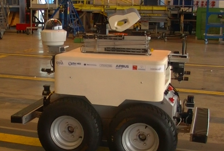 Air-Cobot, the collaborative mobile robot able to inspect aircraft during maintenance operations. In the picture, the robotic platform is in the hangar of Air France Industries, Toulouse, France.